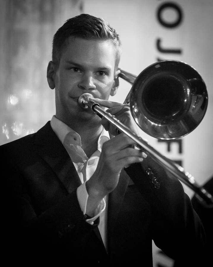 Kristoffer Kompen with Jazzin’ Babies at Stortorvets Gjæstgiveri. The concert was part of the Oslo Jazz Festival in Norway and took place on 19. August 2016. Lineup:Kristoffer Kompen (trombone)Erik Eilertsen (trumpet)Lars Frank (clarinet)Torgeir Koppang (piano)Jermund Kristiansen (double bass)Torbjørn Kristiansen (banjo)Per Frydenlund (drums)